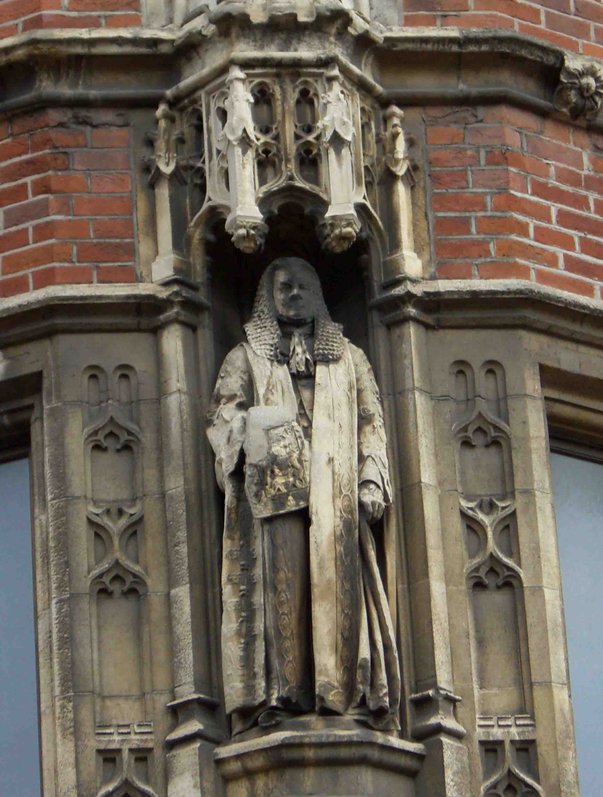 The four foot high statue of Earl Cairns on the Cairns chameber building in Church Street, Sheffield.